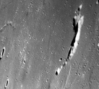 Aryabhata lunar crater. Part of the Apollo-8 image AS08-13-2345.